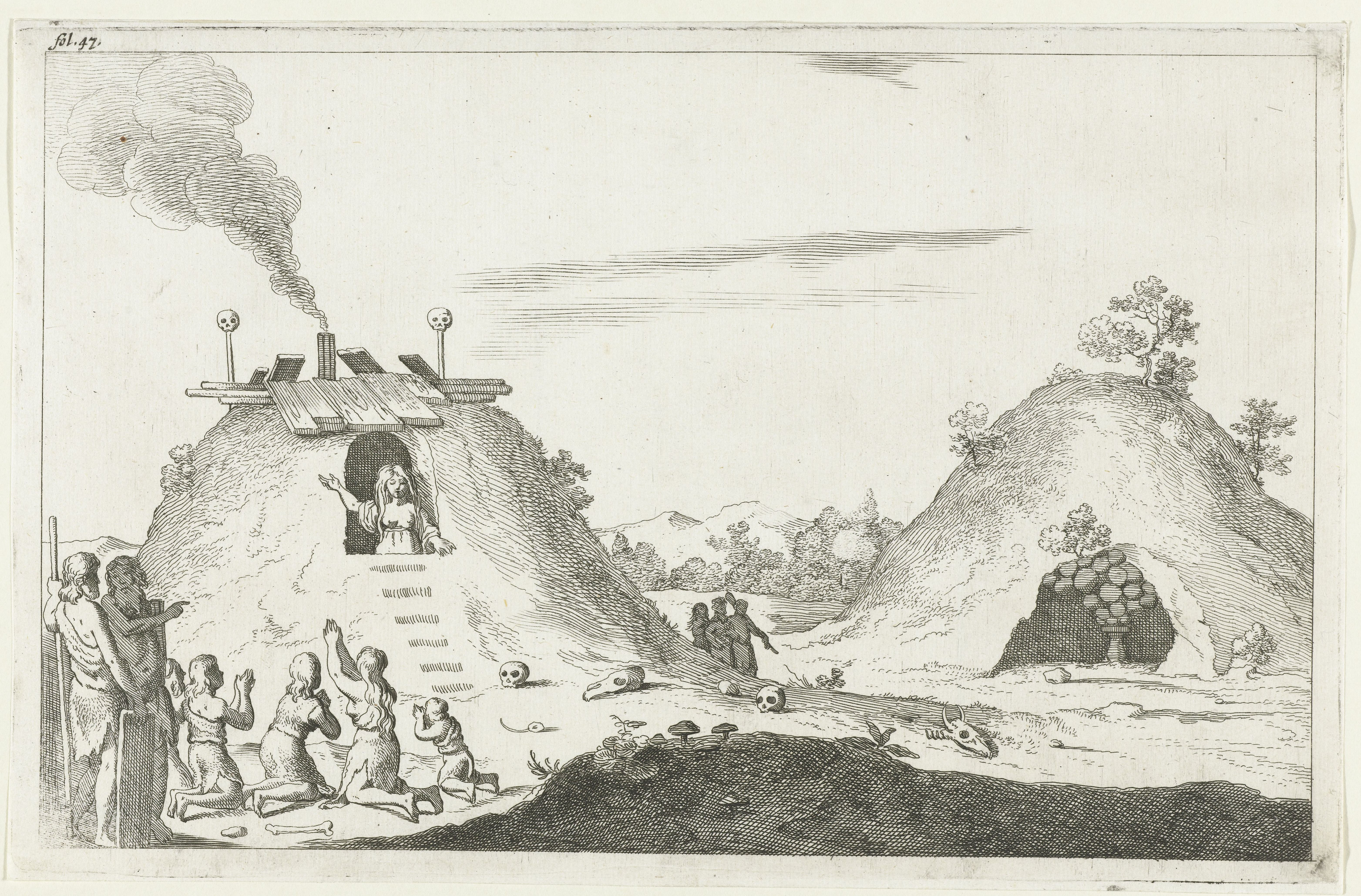 Etching from probably Pieter Holsteyn in 1660 depicting "Witte Wieven" living in tumili. Title according to the Rijksmuseum Amsterdam "Priestess speaks from a hill" It was published in 1660 in a Dutch book called "Korte Beschryvinge van eenige Vergetene en Verborgene Antiquiteten", in which author Johan Picardt made these statements. The bookseller/publisher was Gerrit van Goedesbergh.